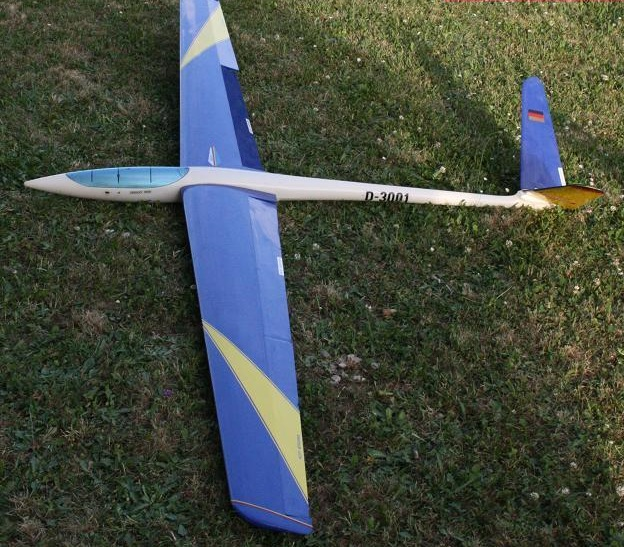 RC Modell Carrera Draco 1980